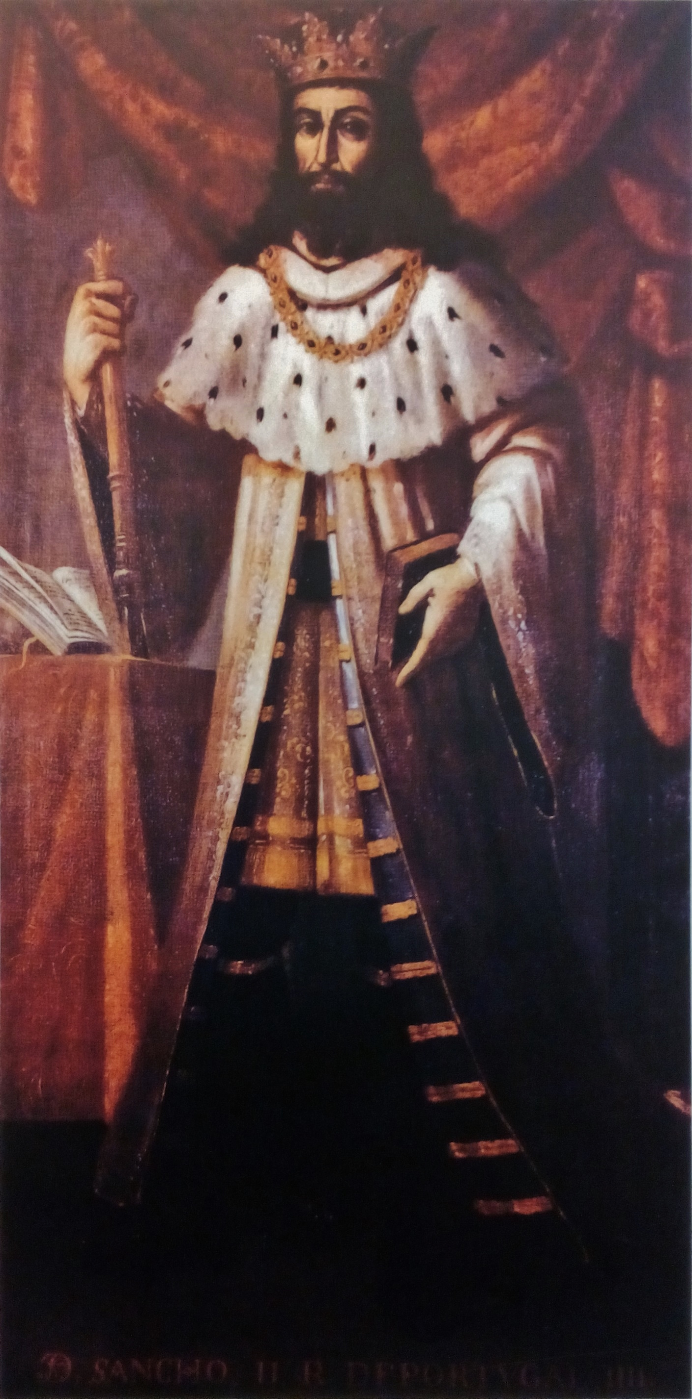 King Sancho II of Portugal, in a 1718 painting by Henrique Ferreira